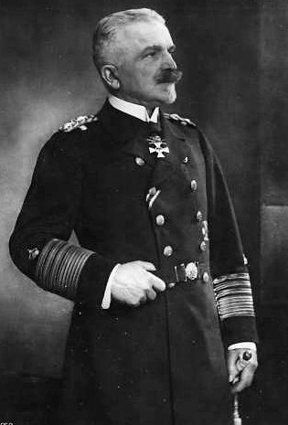 Hugo von Pohl in military uniform